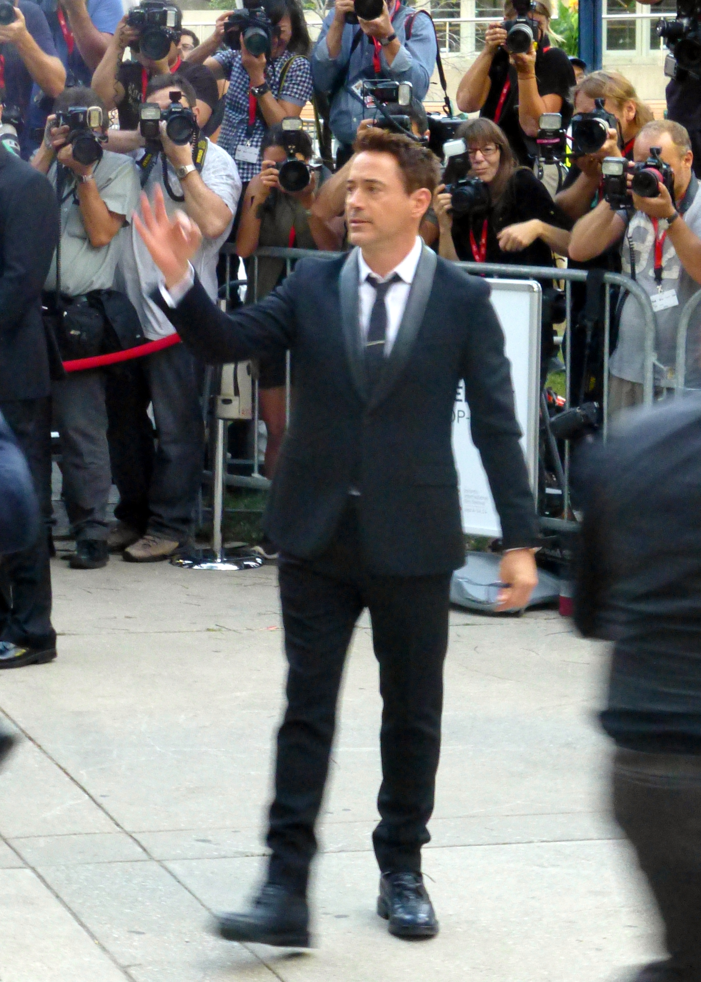 Robert Downey Jr at the premiere of The Judge, Toronto Film Festival 2014